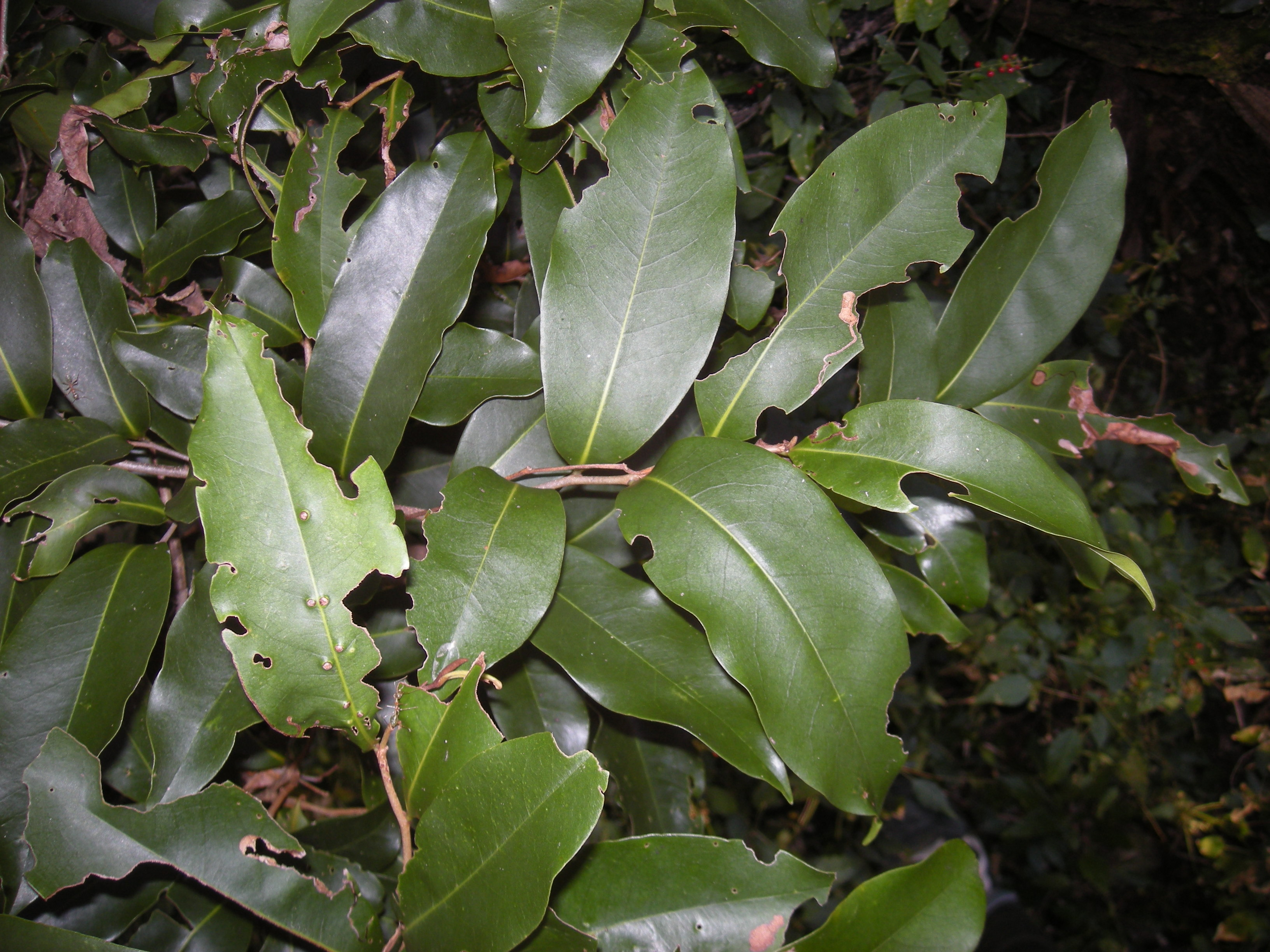 Melodorum leichhardtii foliage